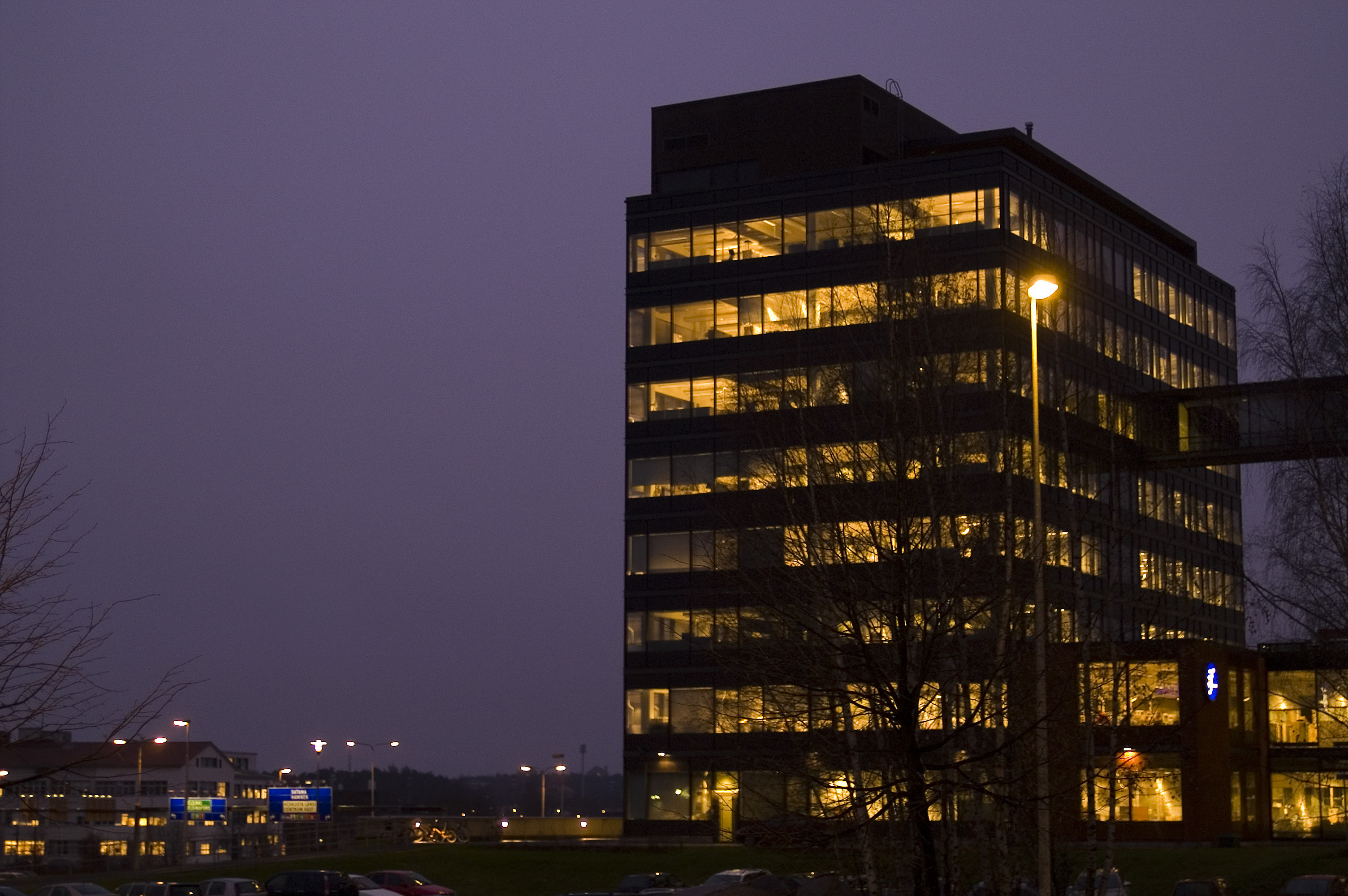 One of the three if-buildings I see from my workplace. In this dark time of the year, I've been staring at these glowing windows a lot.... Turku, Finland.if